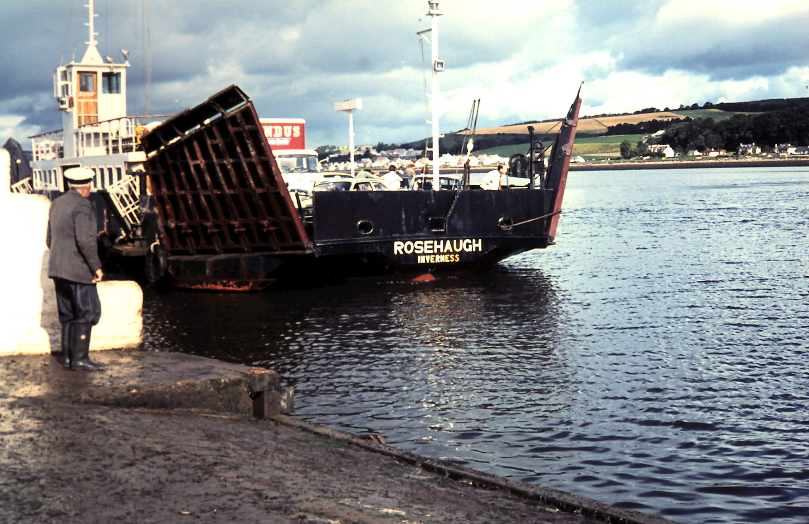 South Kessock ferry point 1971 - the Rosehaugh.